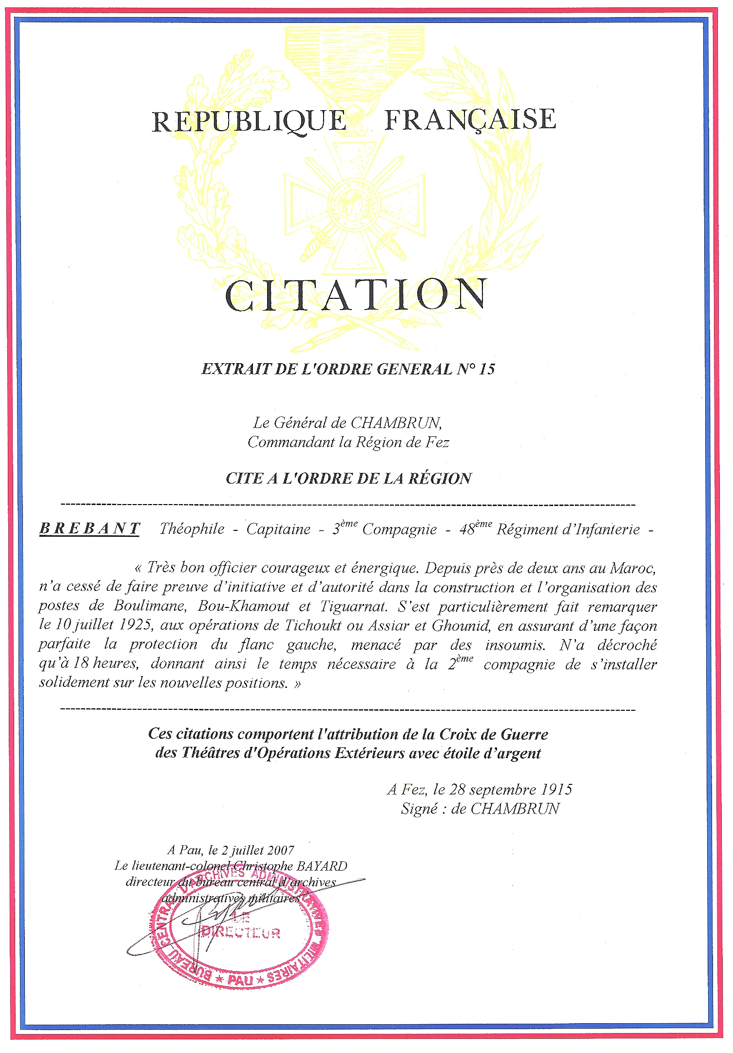 Grant of the summons to the order of the region's captain Brébant in the region of Fez (Morocco) July 10, 1925. This image has a document issued by the French government: the copyright or copyright does not apply to both original and copy.